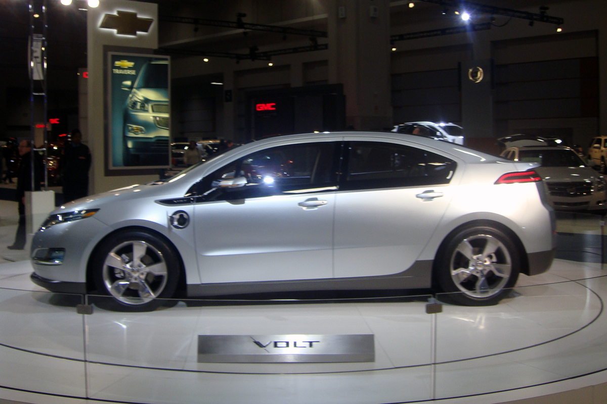 2011 Chevrolet Volt exhibited at the 2010 Washington Auto Show. The Chevy Volt is a plug-in hybrid (PHEV).